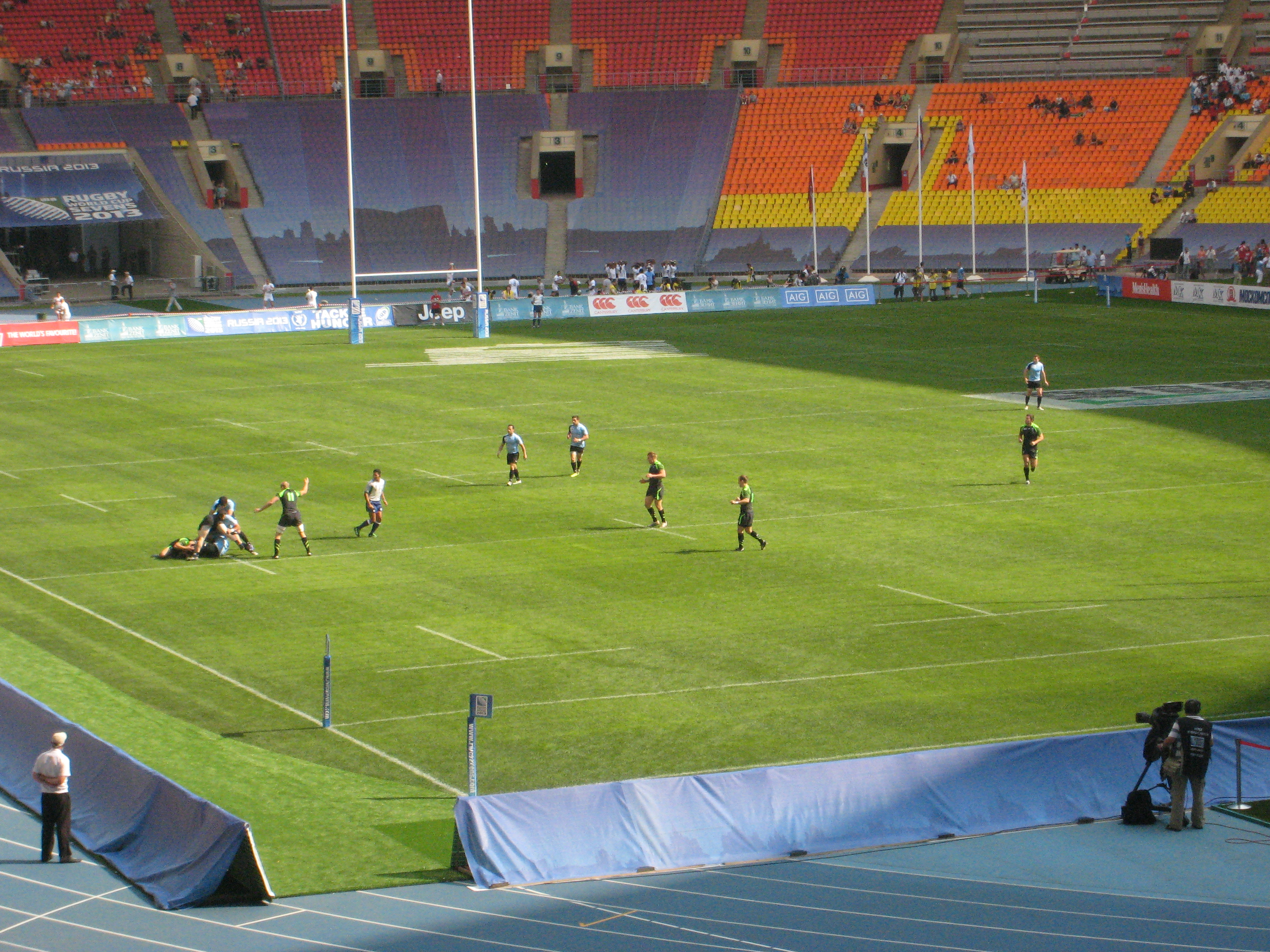 First Day of the 2013 Rugby World Cup Sevens in Moscow